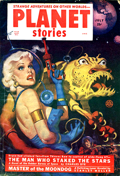 This is the cover to the July 1952 issue of Planet Stories. The cover artist is not attributed in the magazine. The signature in the bottom right corner appears to be T. Anderson for Allen Anderson who did a lot of Planet Stories covers. see the isfdb.